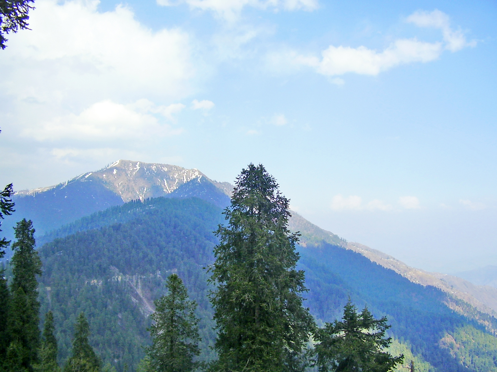 Miranjani, the highest Peak in the Nathiagali area, in Ayubia National Park.